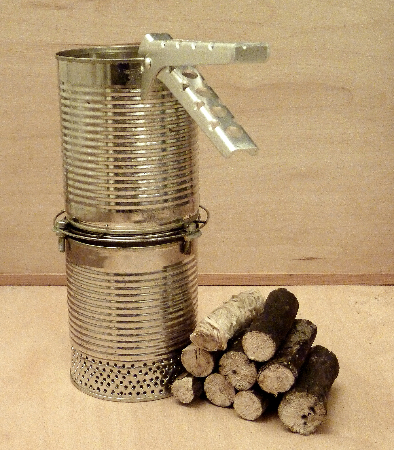 DIY “hobo stove”, a portable convection stove (woodburner) built from a used food can, the chromium plated grill of a computer cooling fan, plus a few screws, hardware nuts, and washers. A second food can on top is used as a cooking pot, shown with an aluminium pan handle of Swedish camping equipment manufacturer Trangia.